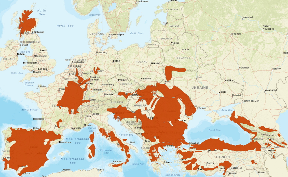 Distribution of European Wildcat